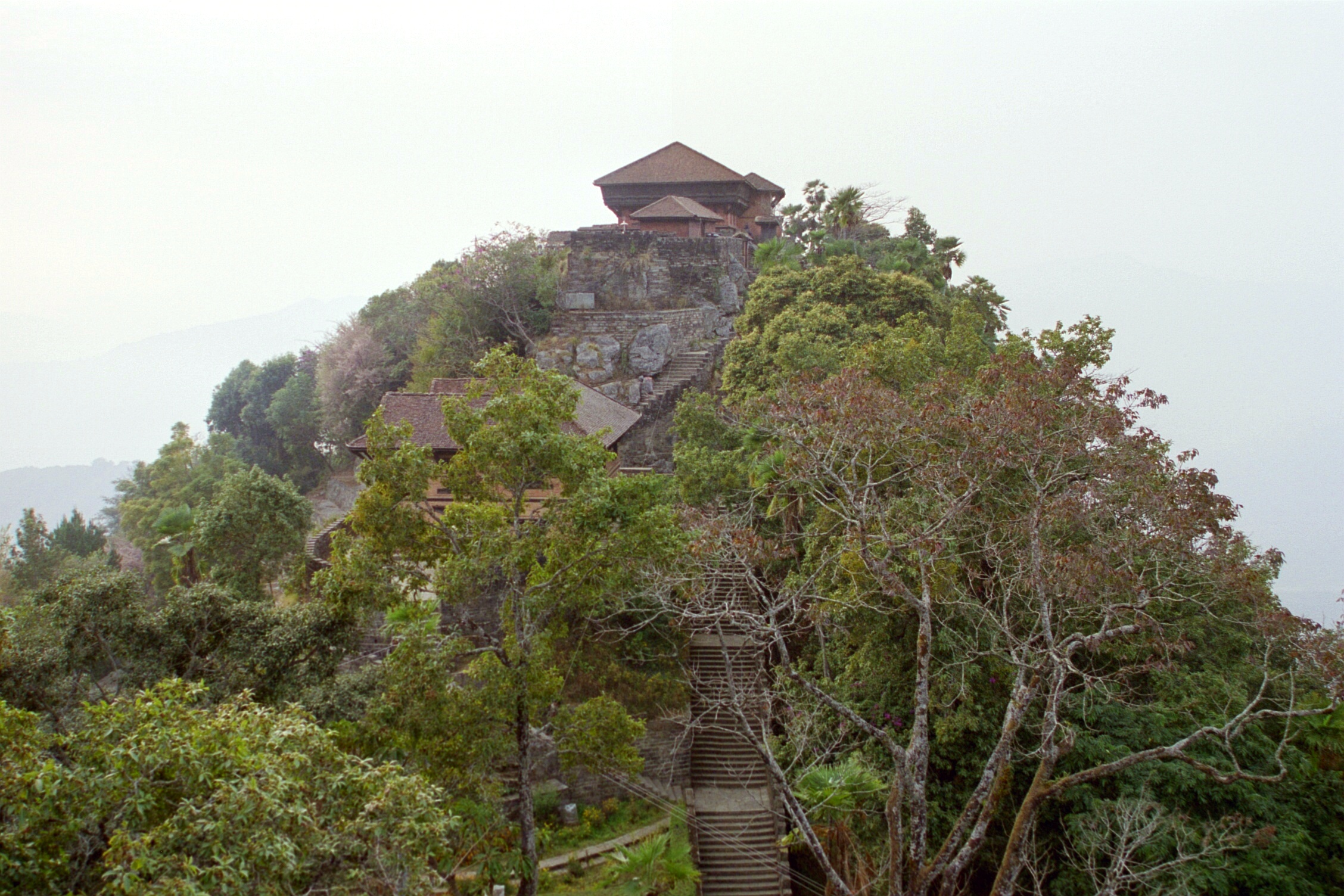 Former King's Palace in Gorkha, Nepal